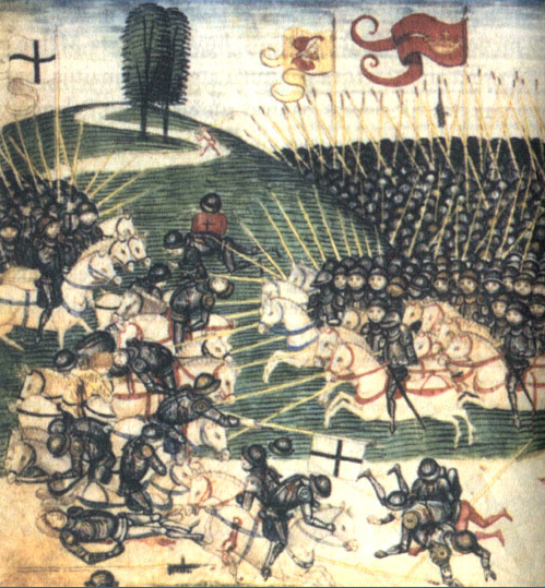 Battle of Tannenberg, Grunwald, Žalgiris, 1410. Diebold Schilling's miniature (15th century) of the battle.